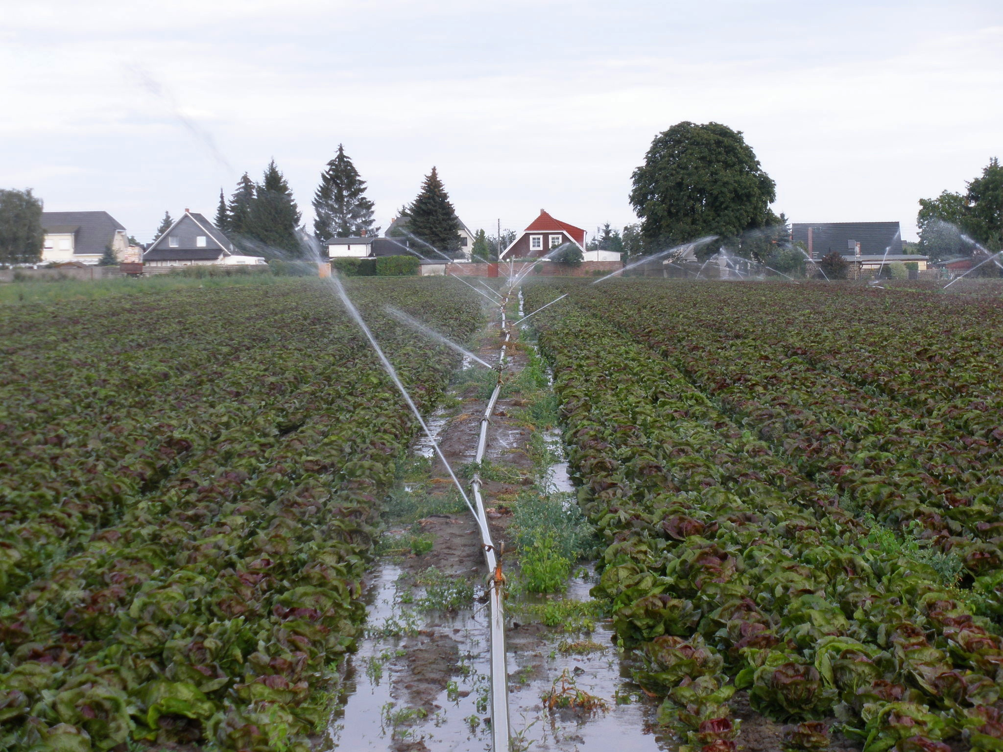 Lettuces field in Wartenberg near Berlin